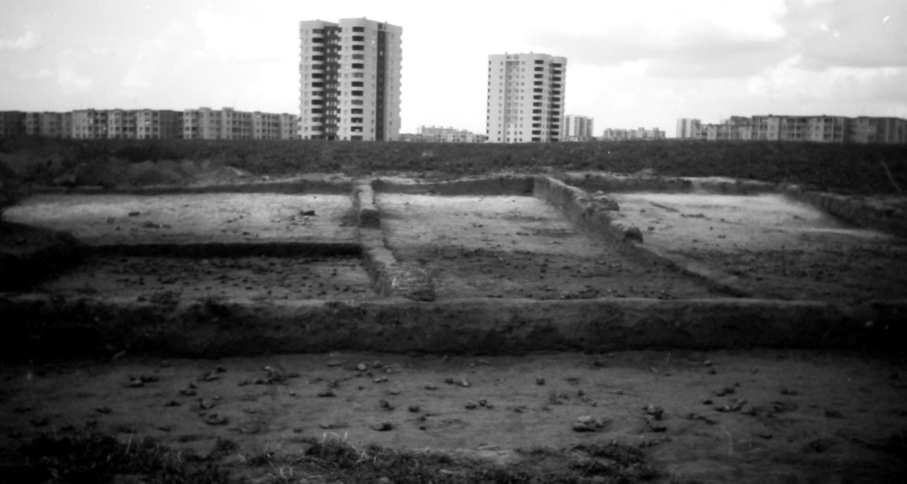 Archeological village in Šiauliai, Lithuania